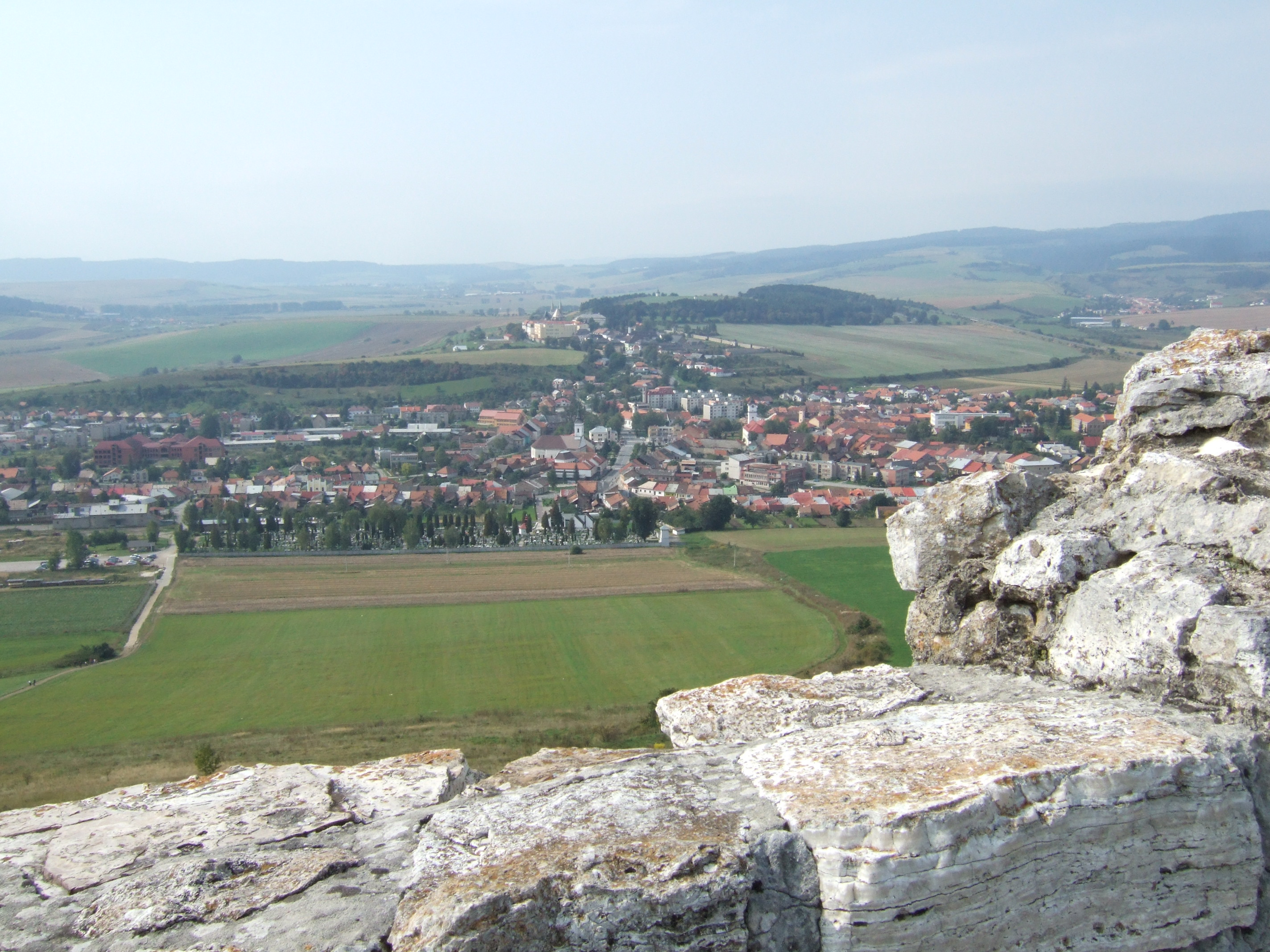 Part of Spišský hrad. View over town of Spissky podhradie. By me.